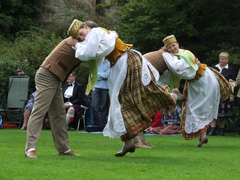 Traditional Lithuanian dance troupe Rasa performing during the 19th International Folk Dance Festival